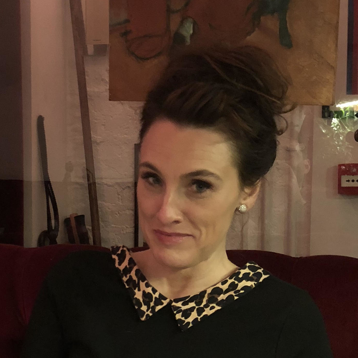 Grace Dent in Otto's. November 2017